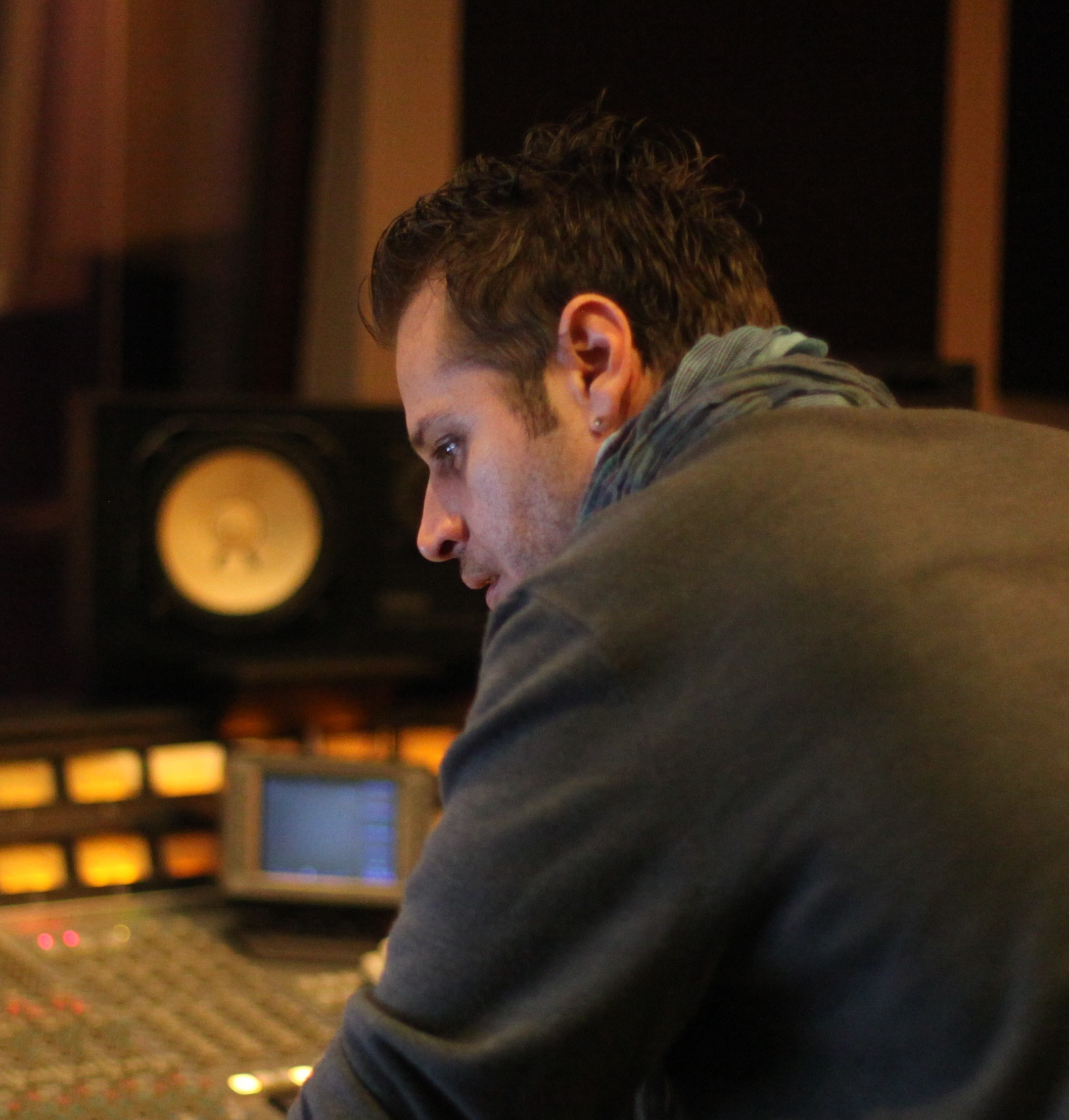 Tolga Gorsev busy producing at the Erekli Tunç Studios in Istanbul, Turkey.